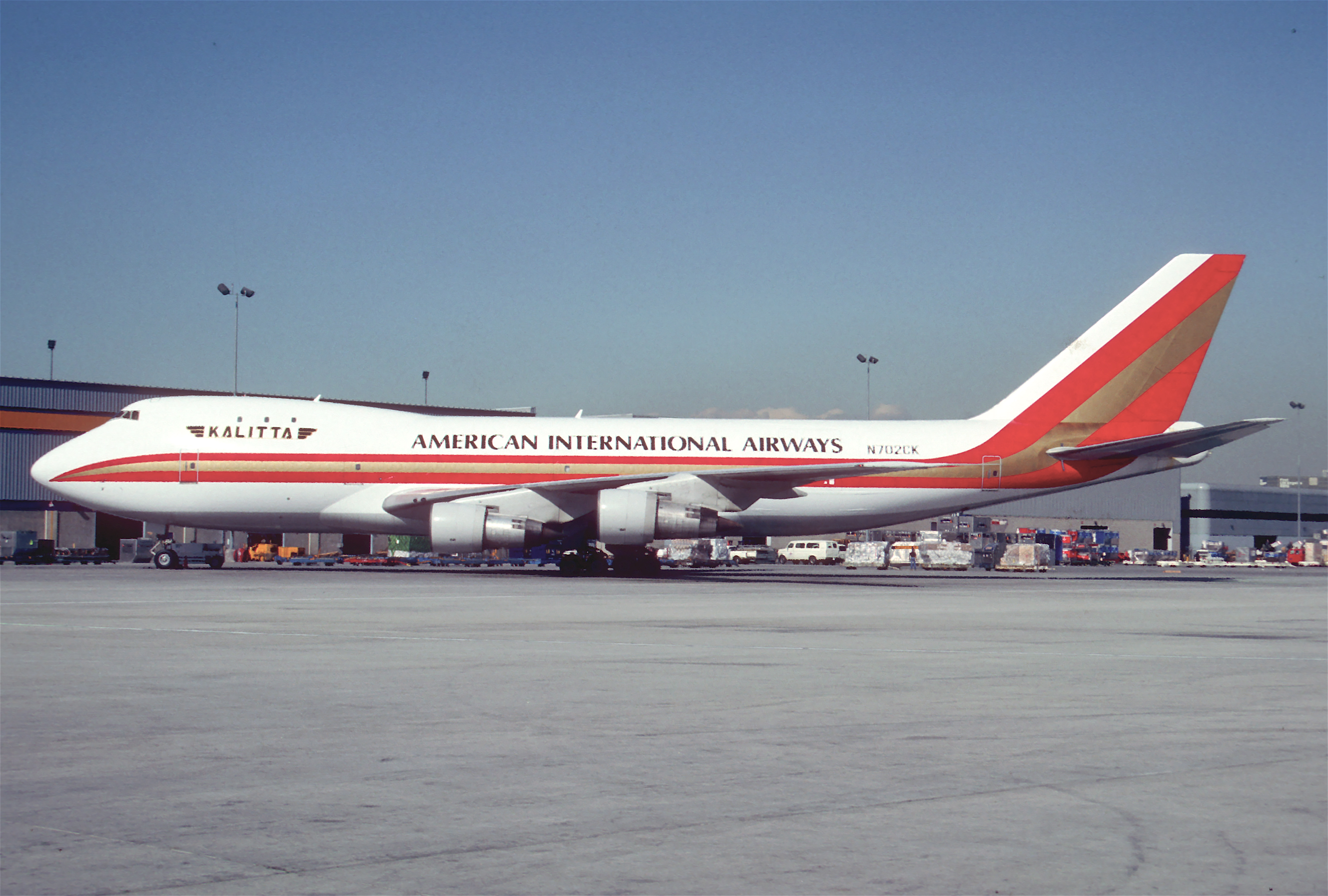 American International Airways - Kalitta Boeing 747-146F; N702CK, February 1993